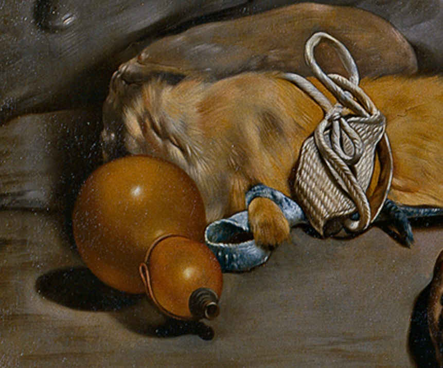 detail: Water pumpkin, pumpkin botija or jug of pastor. Along with the "venera" is an object representative of Pilgrim in general and the Pilgrim aesthetic iconography in particular.